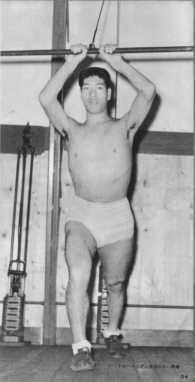 Shohei Baba (Giant Baba). taken in Before 1962.